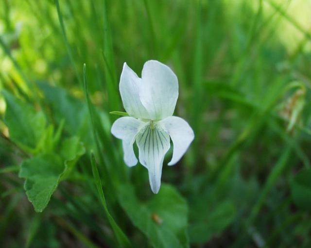 (en) Viola jordanii, a photography originating of the internet site The accord of the autor, H. Brisse, is here. (fr) Viola jordanii, une photographie issue du site internet L'accord de l'auteur, H. Brisse, se situe ici.